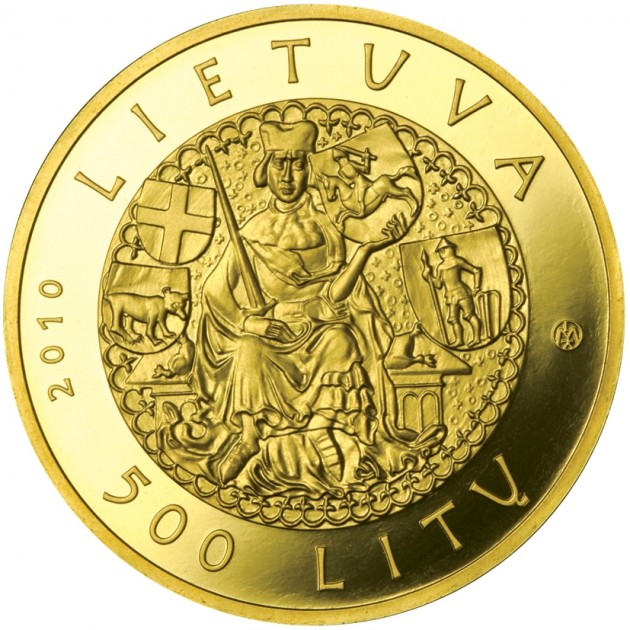 Denomination 500 litas Gold Au 999.9 Diameter 33.00 mm Weight 31.10 g Quality proof Mintage 5,000 pieces